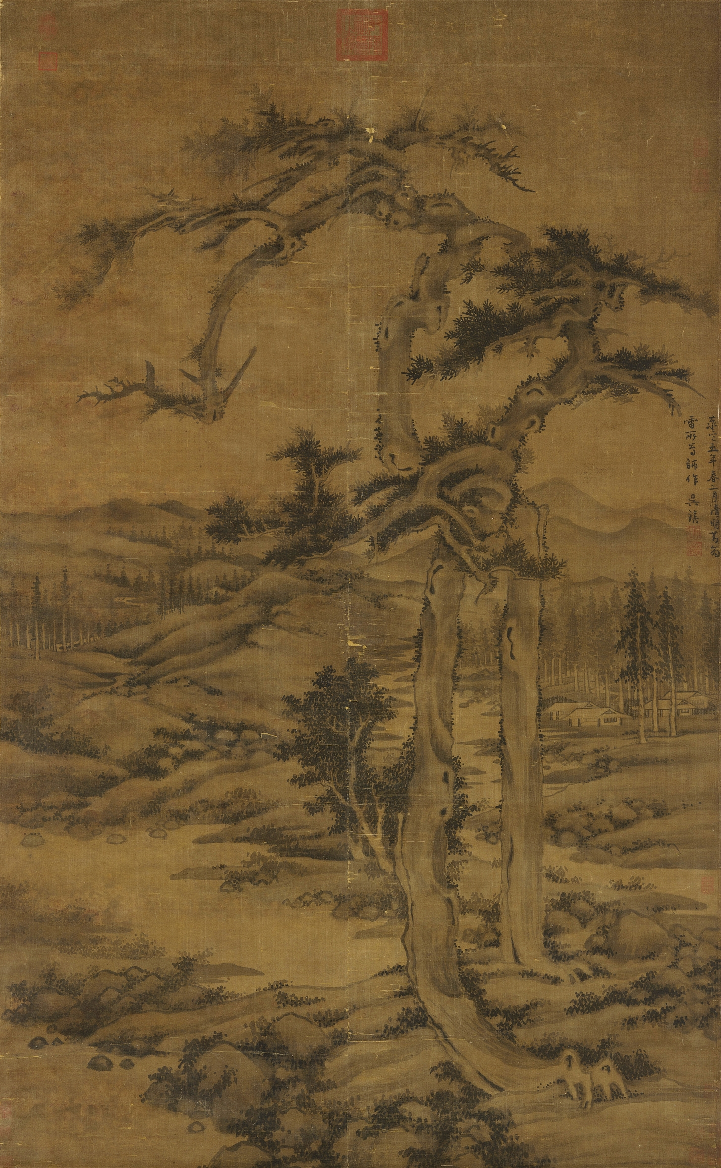 Wu Zhen.Landscape with Two Pine Trees(Twin_Pines)._180x111,4_cm._1328._National_Palace_Museum,_Taipei